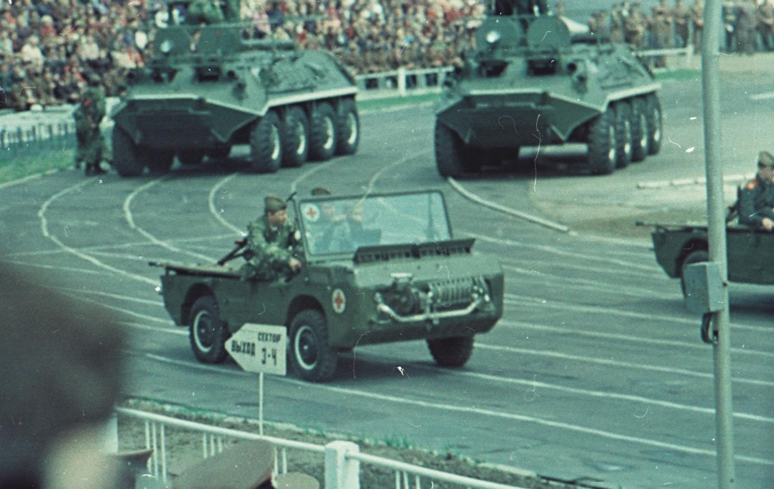 LuAZ vehicles